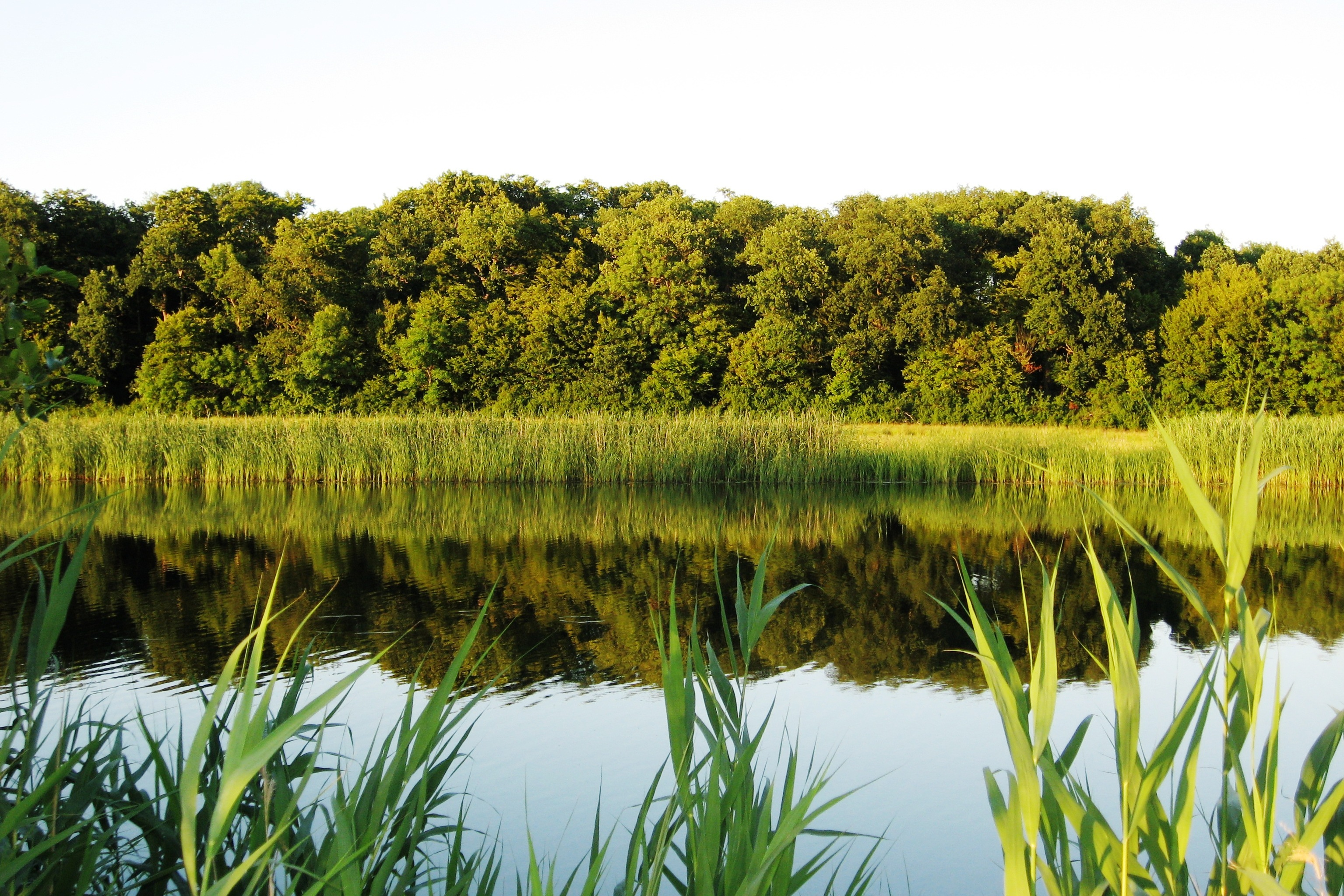 Lake "Sumter See", Sumte, Lower Saxony, Germany